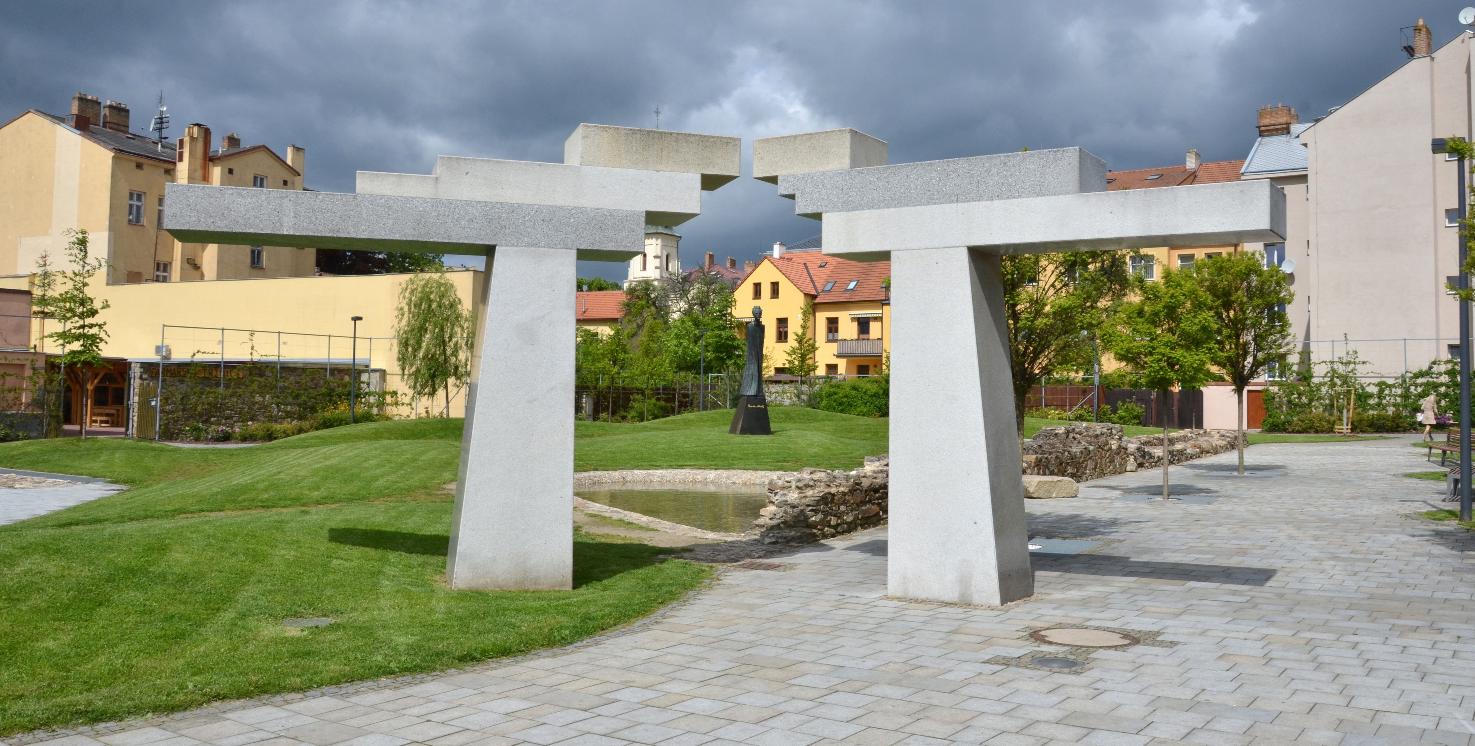 Gustav Mahler park, Jihlava, Czech Republic